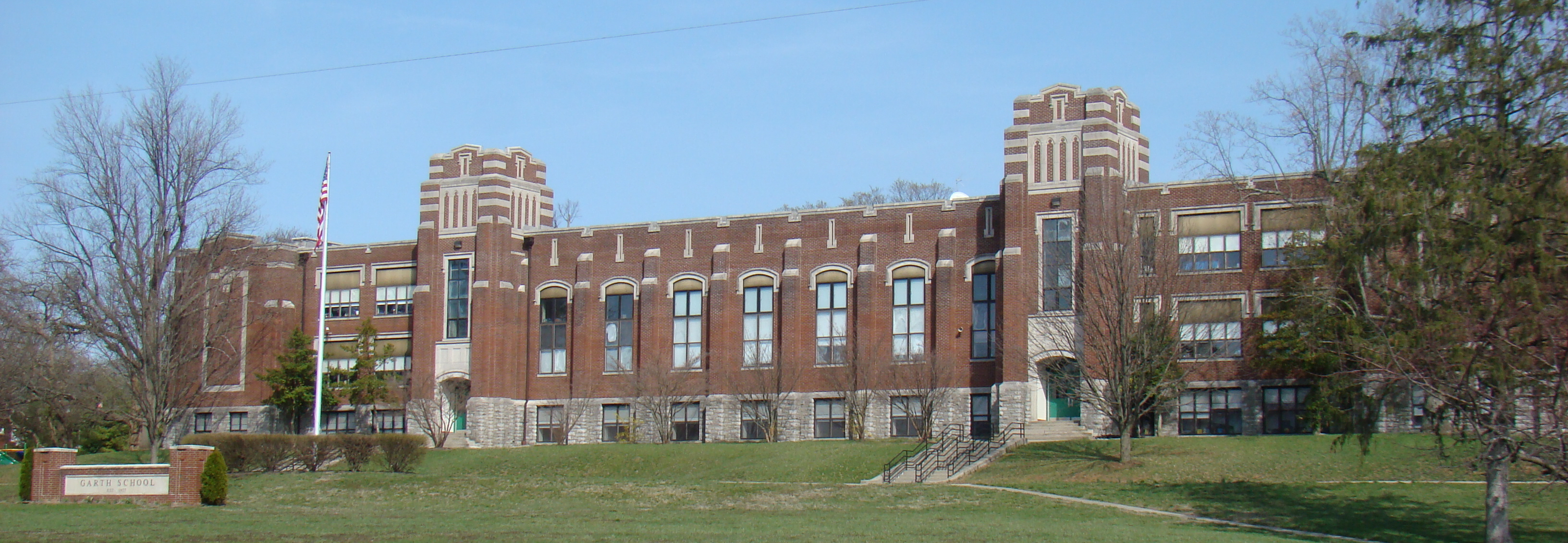 Garth School, an historic property on South Broadway Street in Georgetown, Kentucky. Originally built as an high school, currently the building is used as an elementary school.